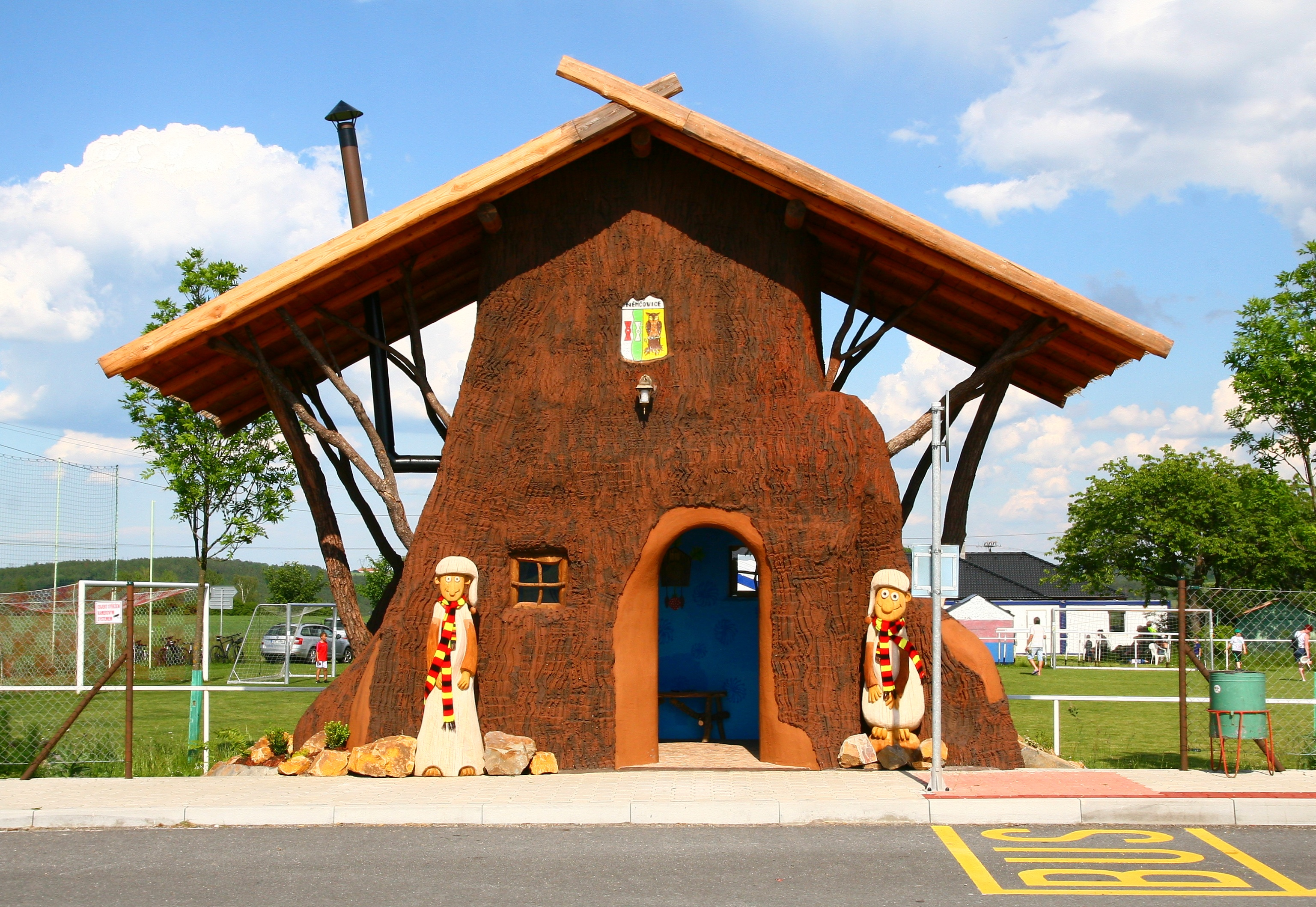 Bus shelter in Němčovice as fairytale house, Rokycany District, Czechia.